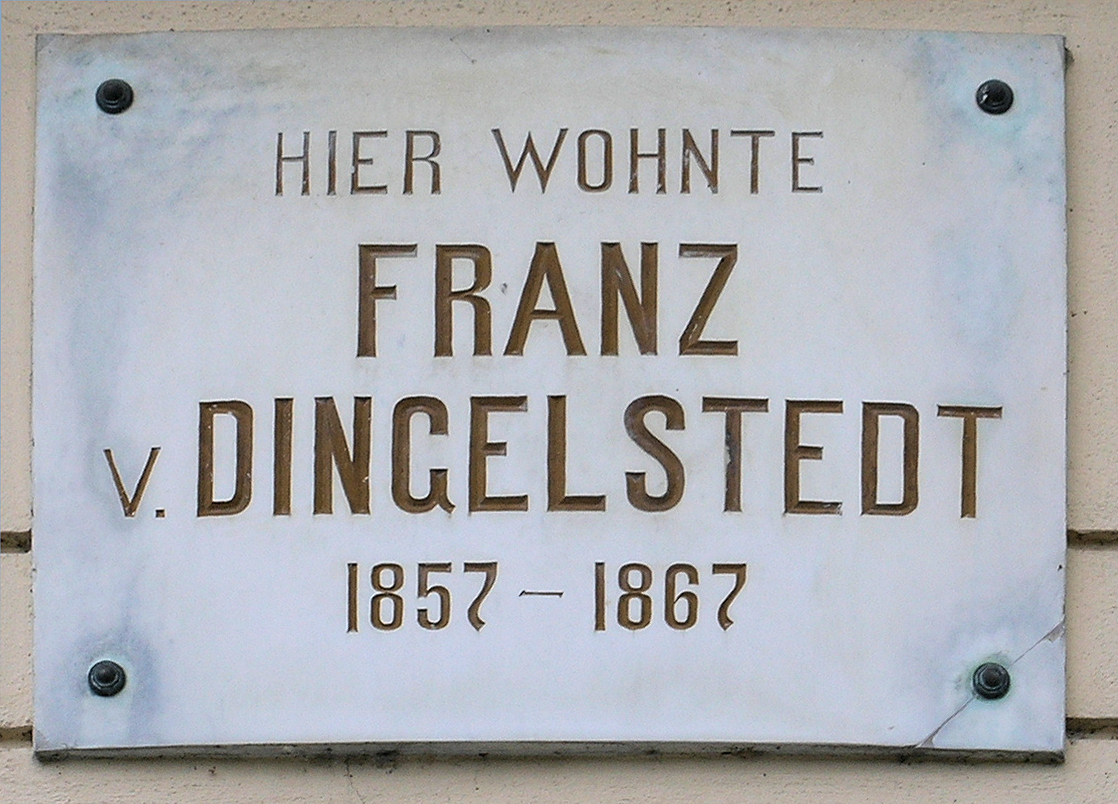 Memorial plaque, Franz von Dingelstedt, Beethovenplatz 3, Weimar, Germany